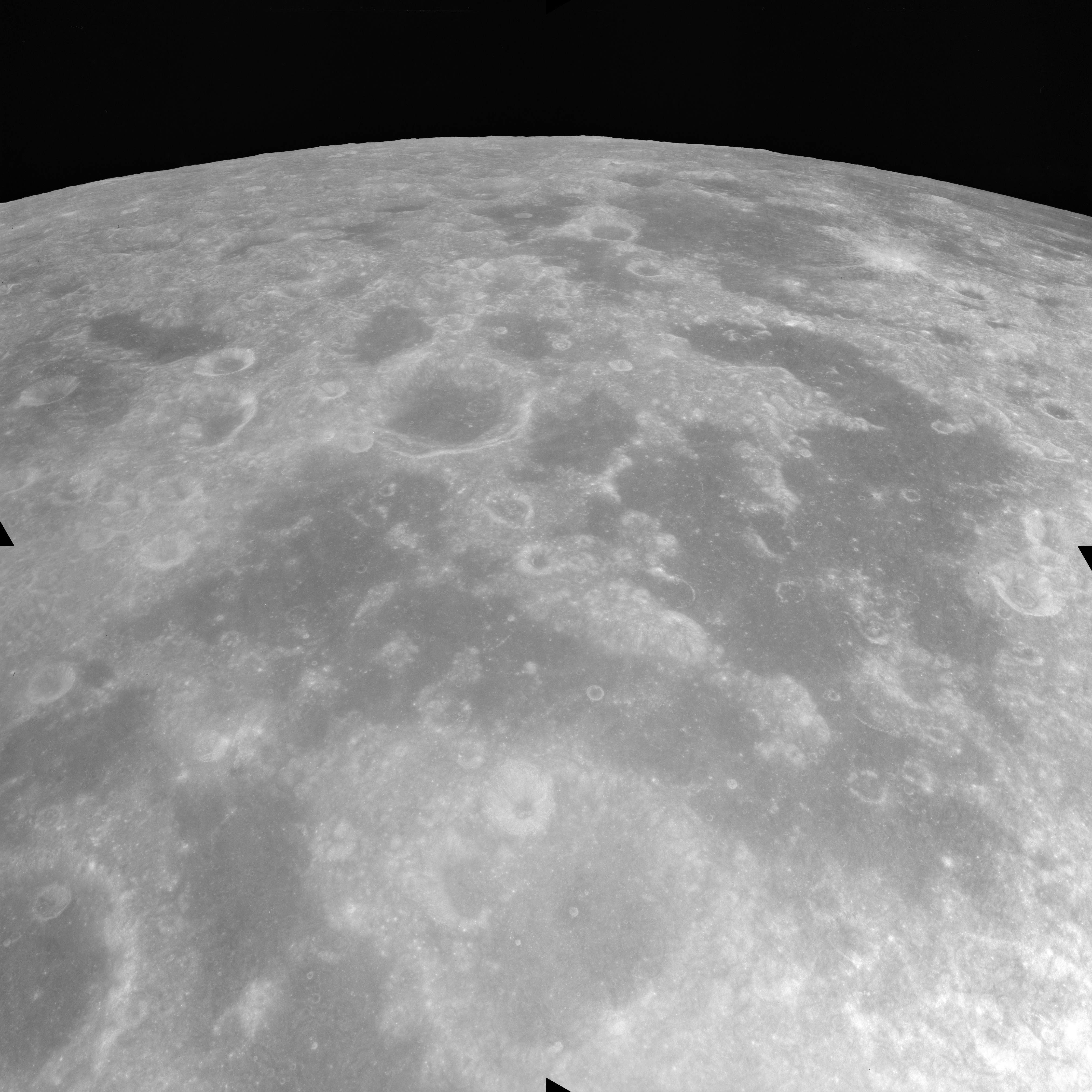 Mare Undarum (in the center and right) and Mare Spumans (in the upper right, smaller) on the Moon.